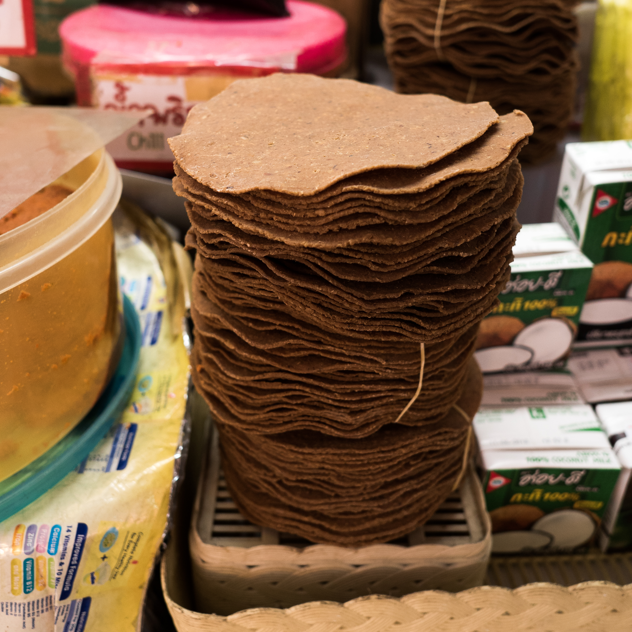 Tua nao (Thai script: ถั่วเน่า) are a food ingredient made from fermented soy beans in the form of round patties. Within Thailand, they are mainly used in northern Thai cuisine. This ingredient is associated with the Shan people (Tai Yai) of Myanmar and Thailand, and with the Tai Lue people of China, Myanmar and Thailand. The image shows the dried version (tua nao khaep).